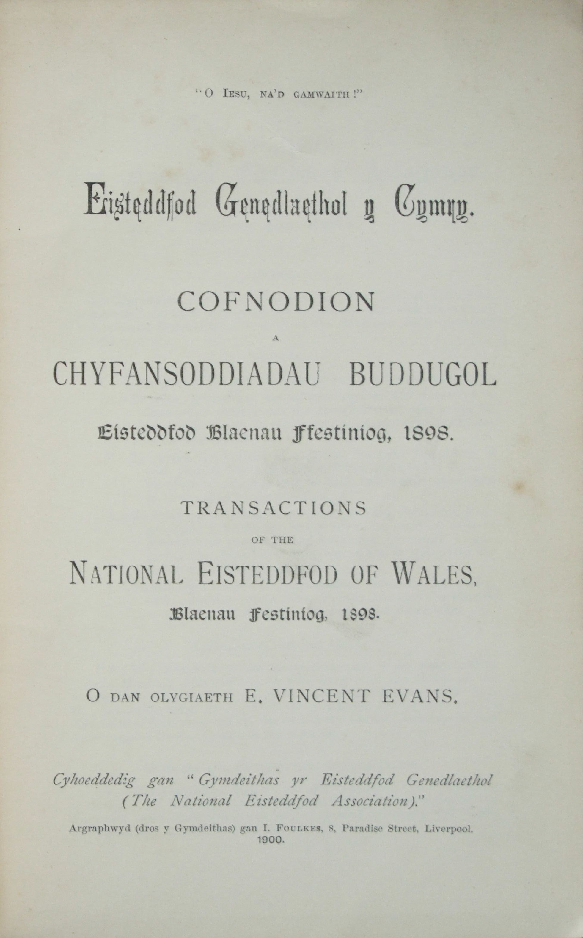 Title page of Cofnodion Eisteddfod Genedlaethol Cymru, Blaenau Ffestiniog, 1898 (Transactions of the National Eisteddfod of Wales, Blaenau Ffestiniog, 1898). Published on behalf of the Eisteddfod in 1900 by Isaac Foulkes.